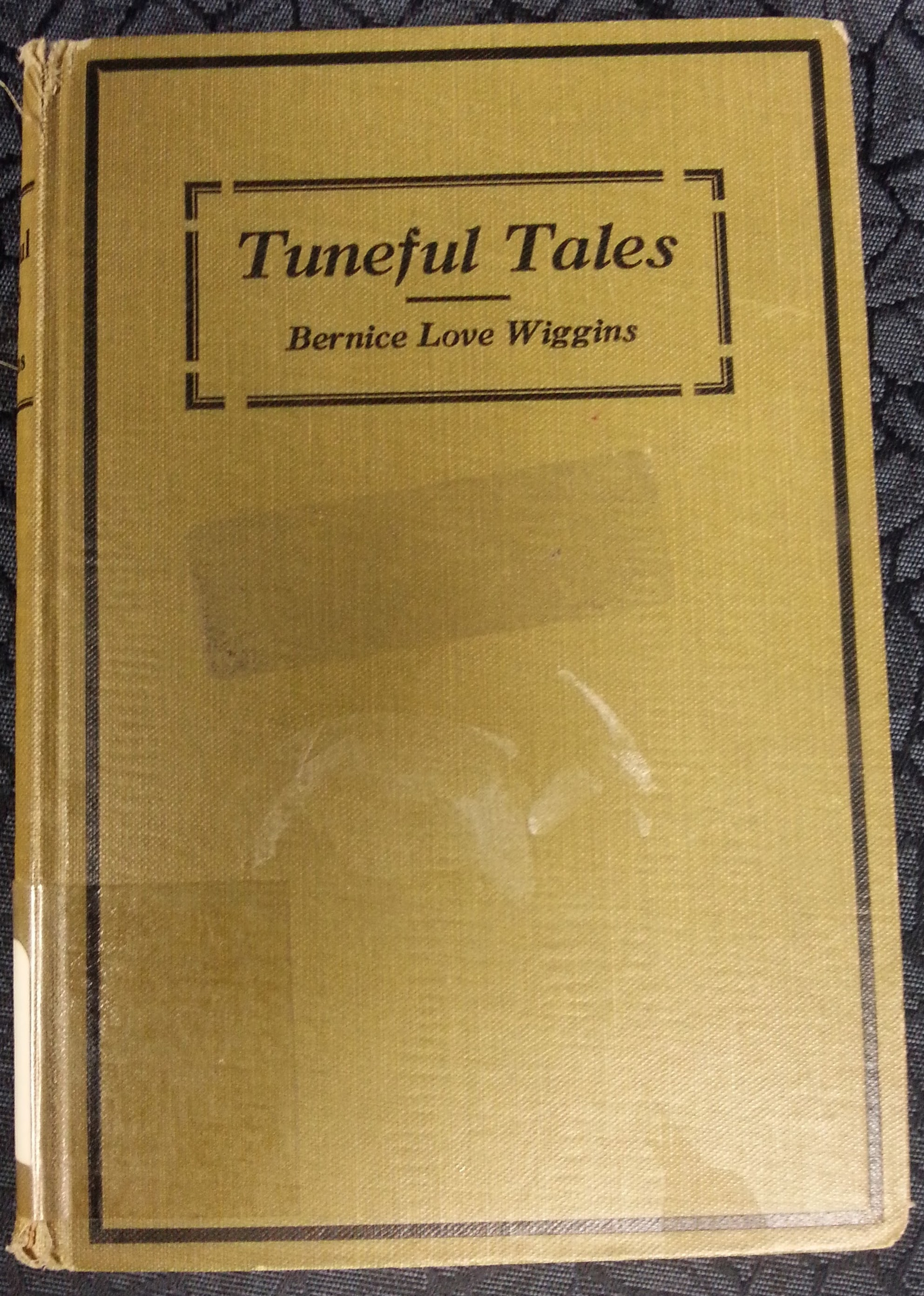 The cover of Bernice Love Wiggins' book, Tuneful Tales, (1925).